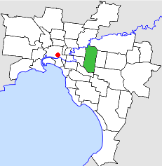 Location of the City of Camberwell within Melbourne.